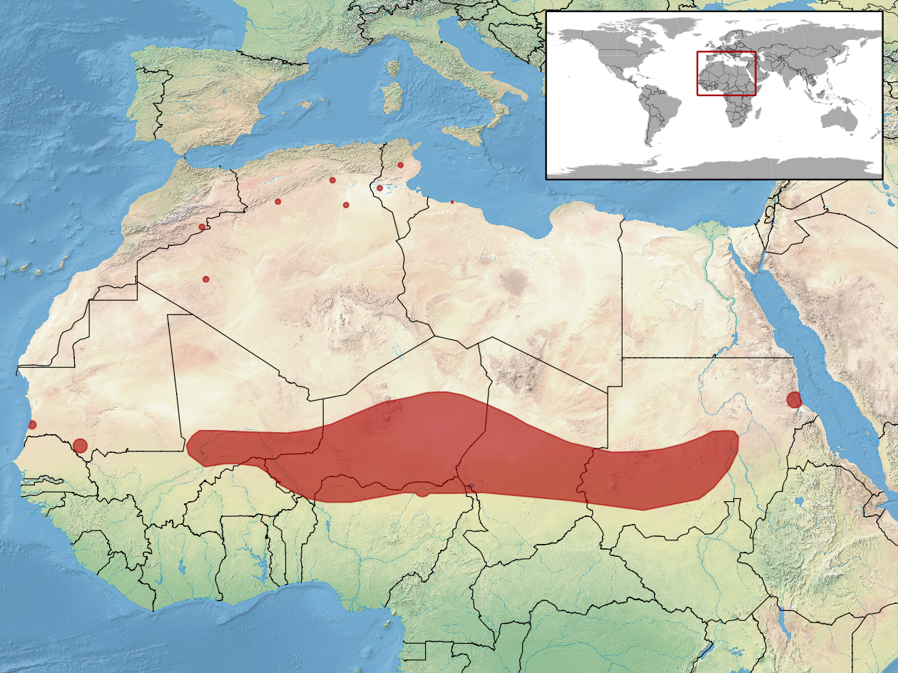 geographic distribution of Scincopus fasciatus